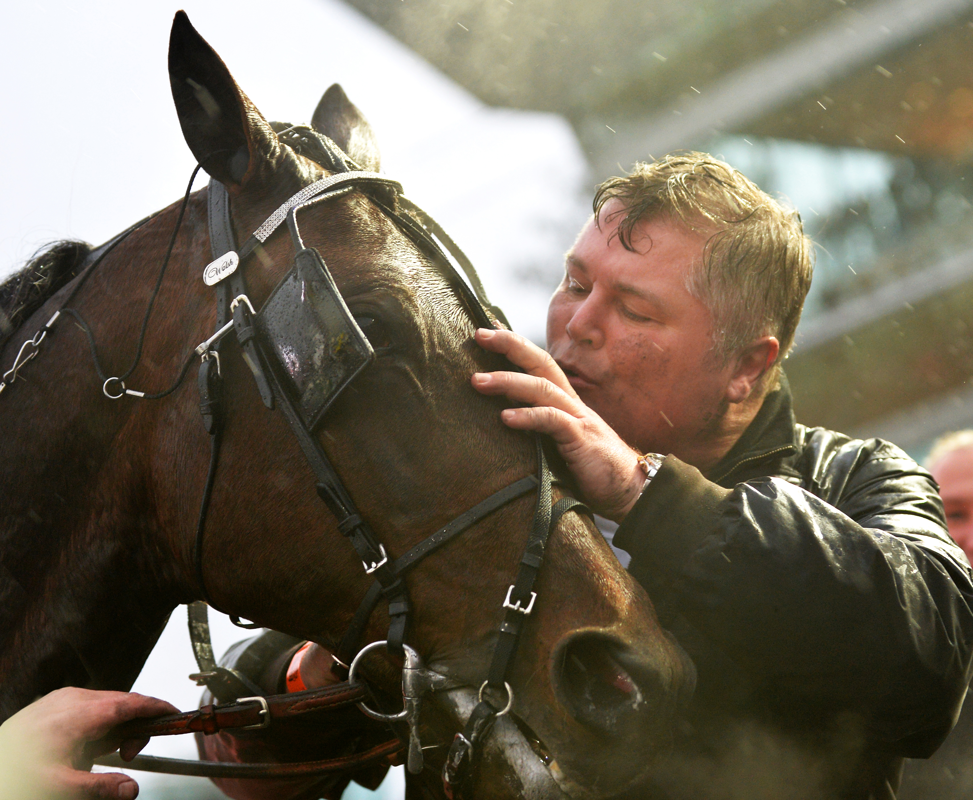 Maharajah & Stefan Hultman after winning Prix d'Amerique 2014-01-26.